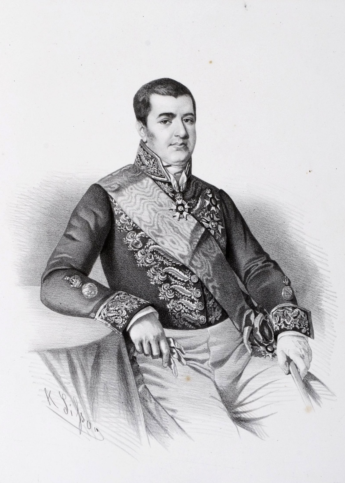 Bernardo Pereira de Vasconcelos, main founder and ideologue of the Brazilian Conservative Party (1826-1889).